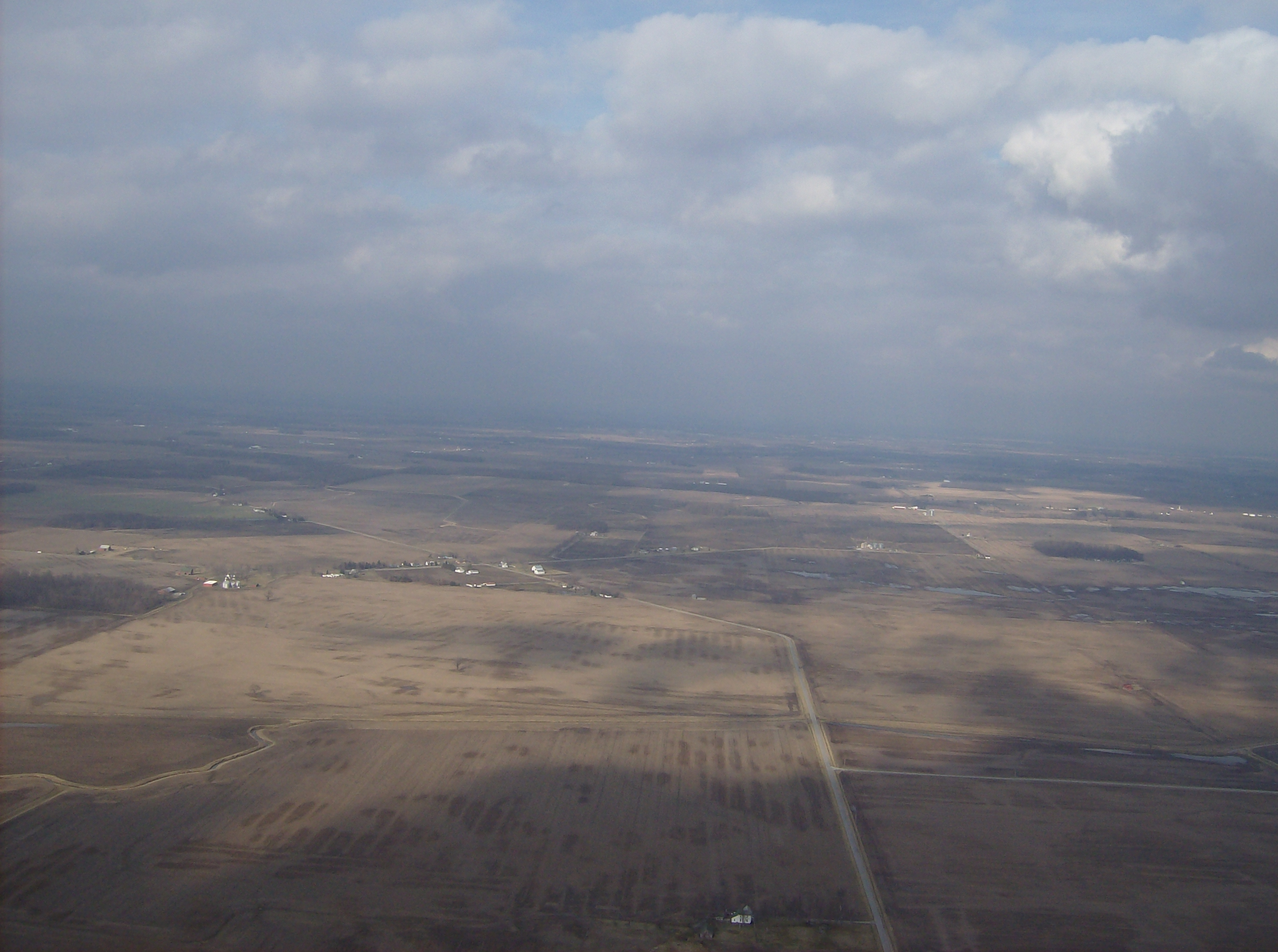 Countryside in southwestern Concord Township, Fayette County, Ohio, United States, looking at the intersection of Sollars and Greenfield Sabina Roads. Picture taken from a Diamond Eclipse light airplane at an altitude of 2,400 feet MSL and a bearing of approximately 65º.